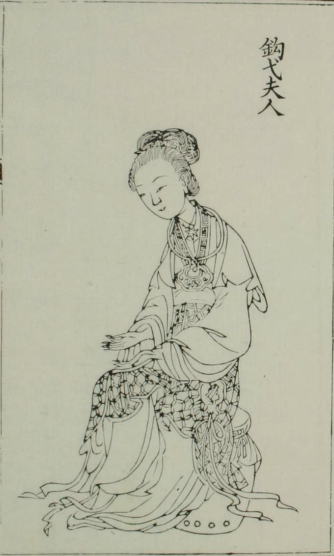 portrait of Lady Gouyi (Zhao Jieyu) from the Qing dynasty book Bai mei xin yong